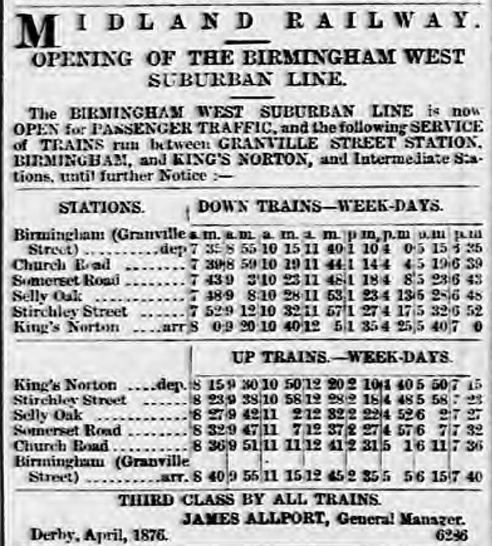 The opening of the Birmingham West Suburban Line from an advertisement in Aris's Birmingham Gazette